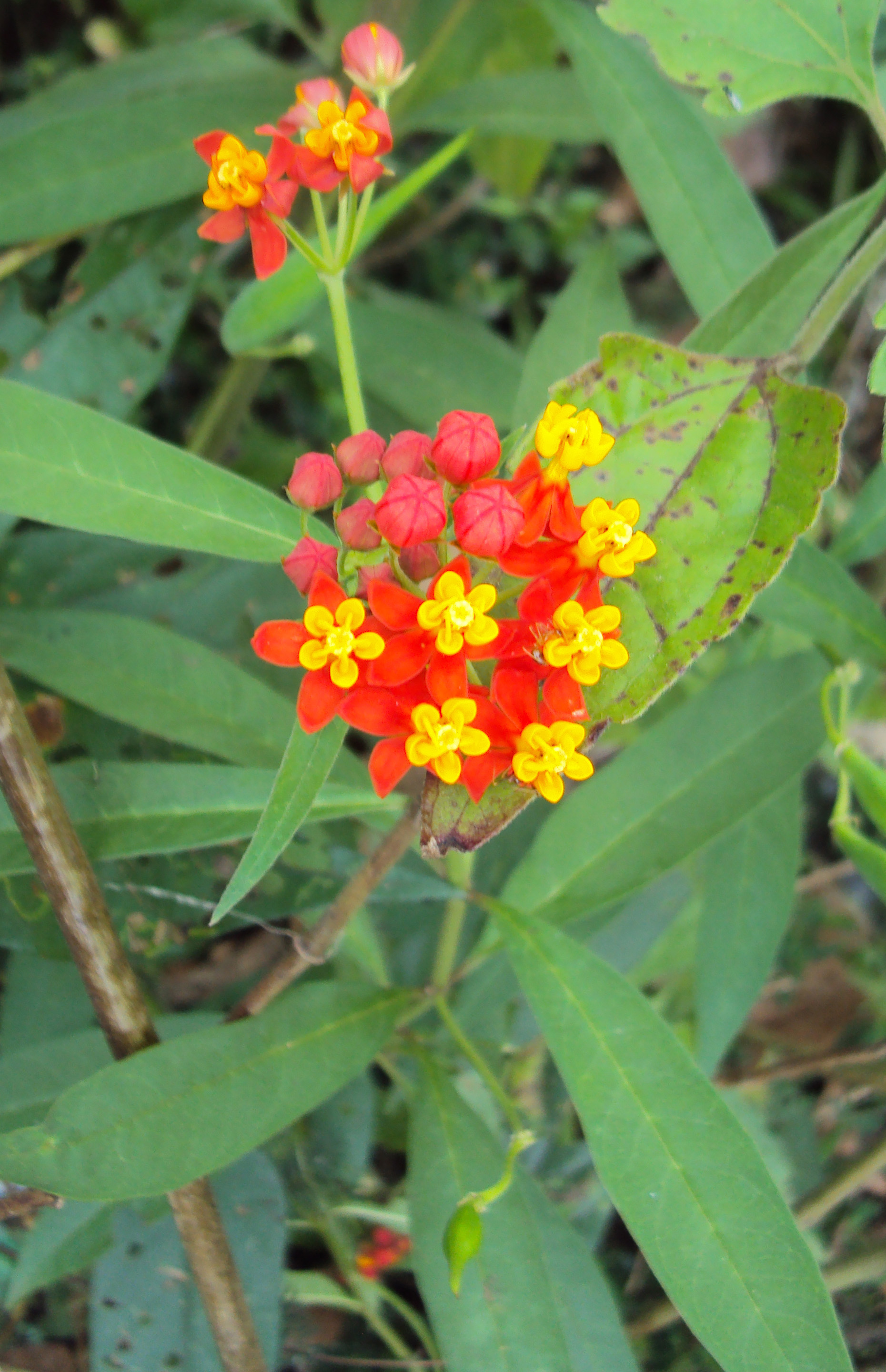 Asclepias curassavica